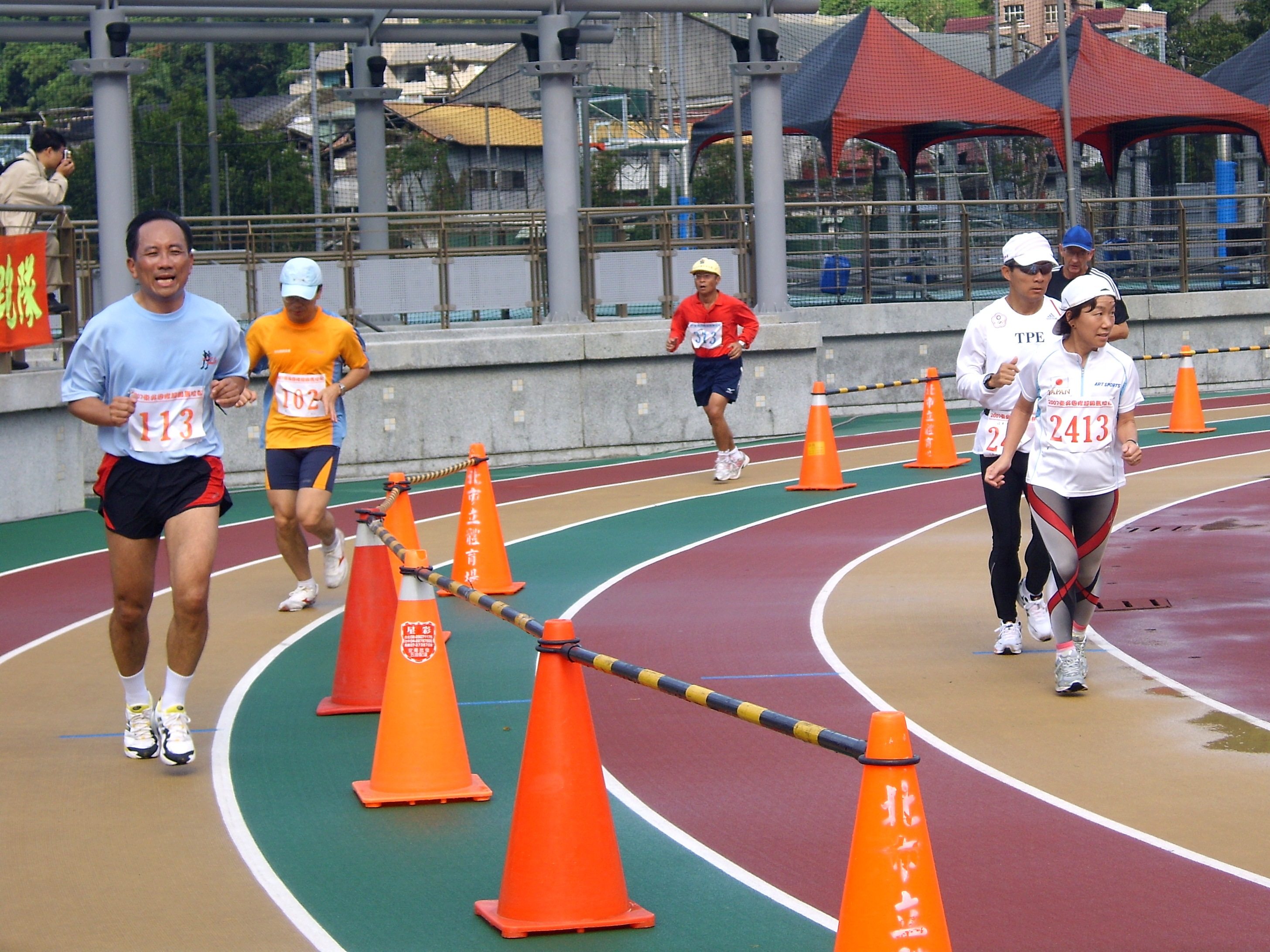 2007 Soochow International 24h Ultra-Marathon: The 1st Day in the morning.